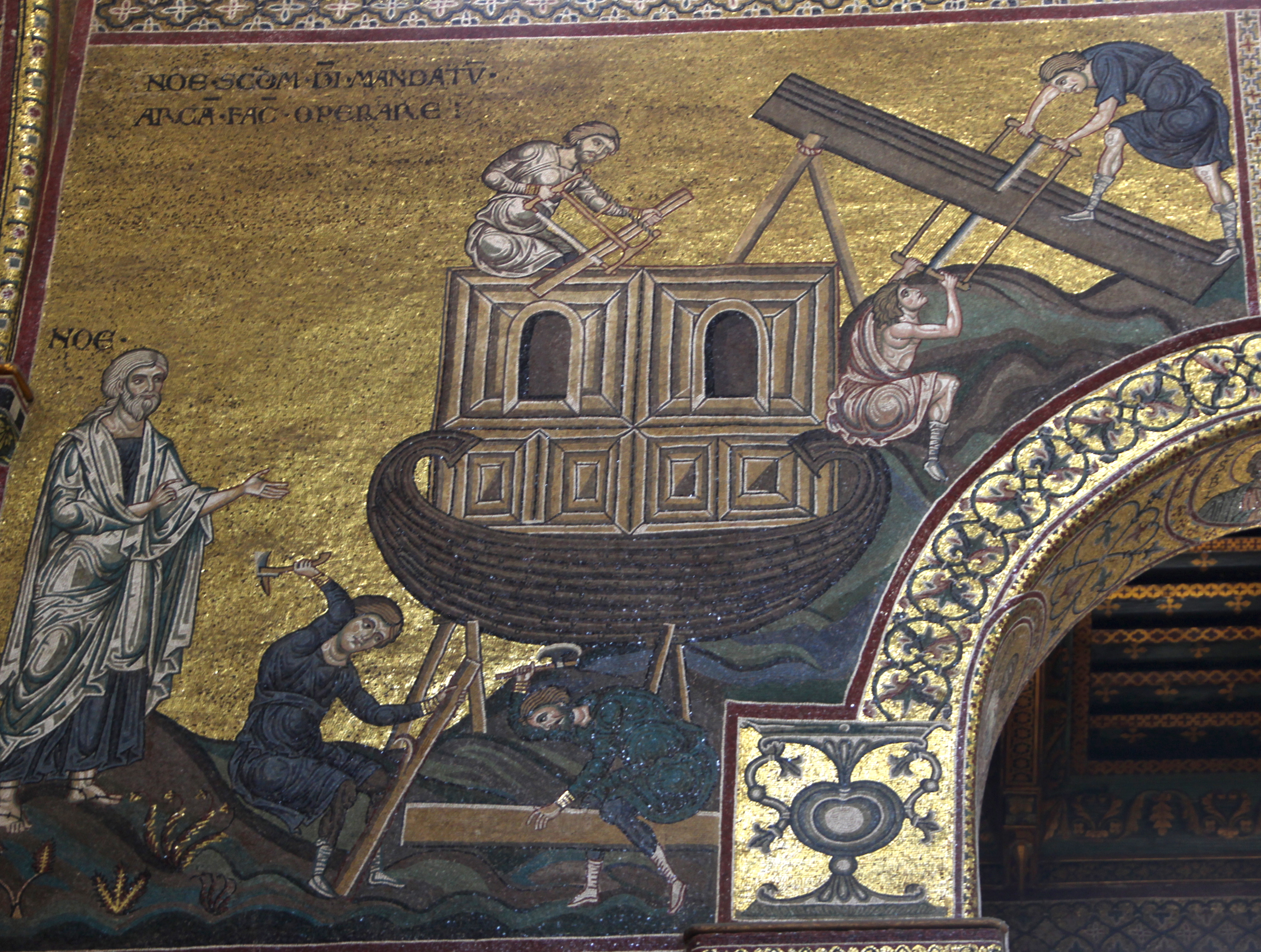 God said to Noah : "So make yourself an ark of cypress[c] wood; make rooms in it and coat it with pitch inside and out" (Genesis 6, 14)